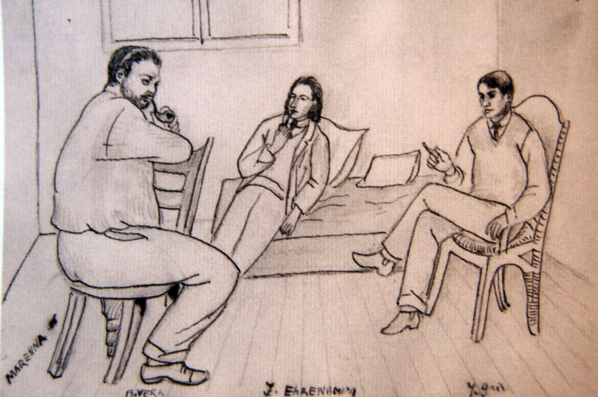 Diego Rivera, Ehrembourg and Juan Gristhe atelier of Diego Rivera in Rue du Départ, Paris in 1916. Drawing by Marevna. pencil on paper